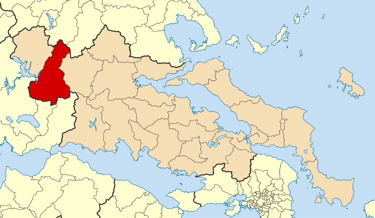 Locator map for Karpenisi municipality in Greek region Central Greece (2011)